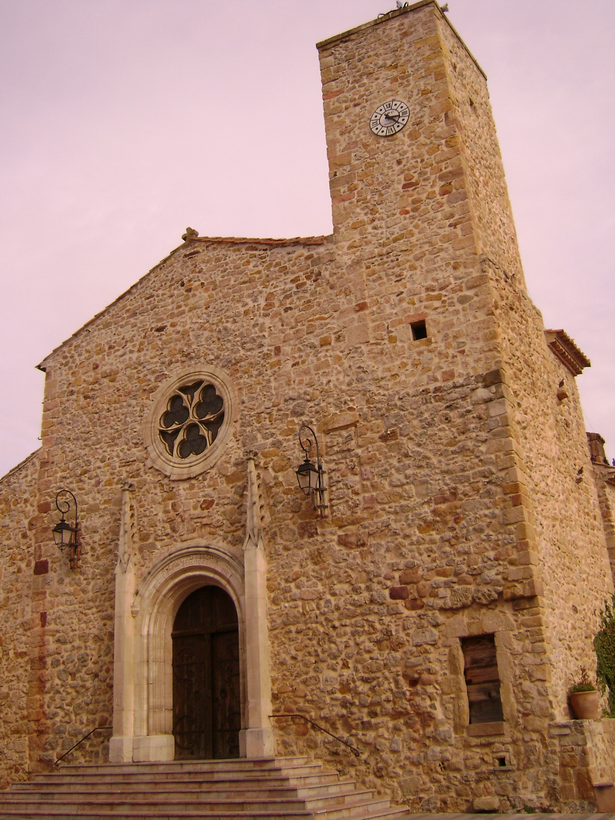 Saint Pierre-aux-liens church, Bizanet, Aude ,France